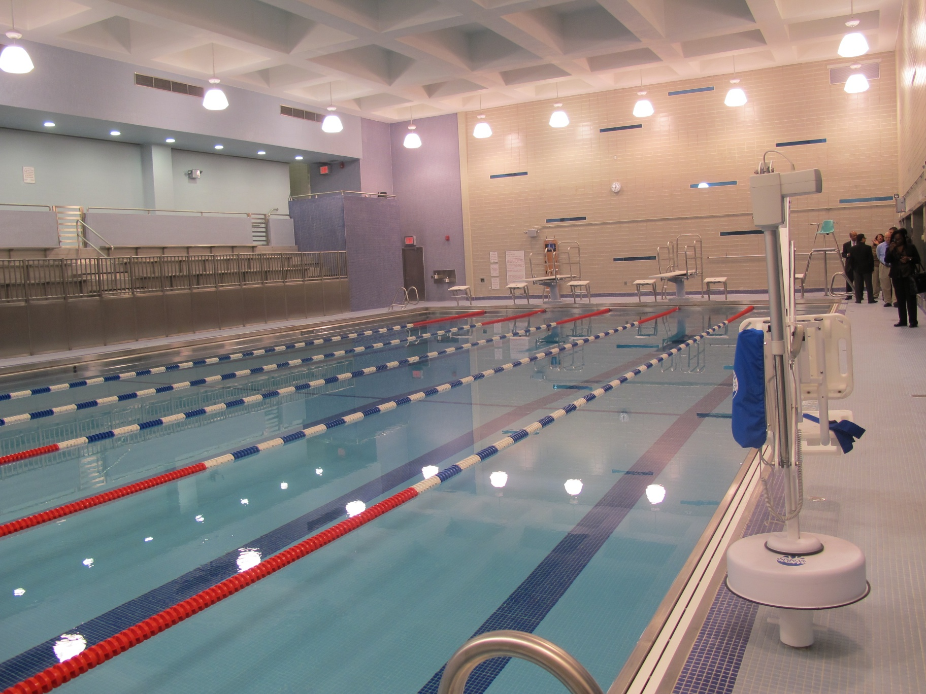 Renovated Olympic-Sized swimming pool inside the Harry S Truman High School in Bronx, NY